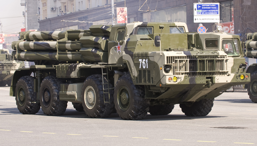 A Russian BM-30 Smerch during the Victory parade 2010.